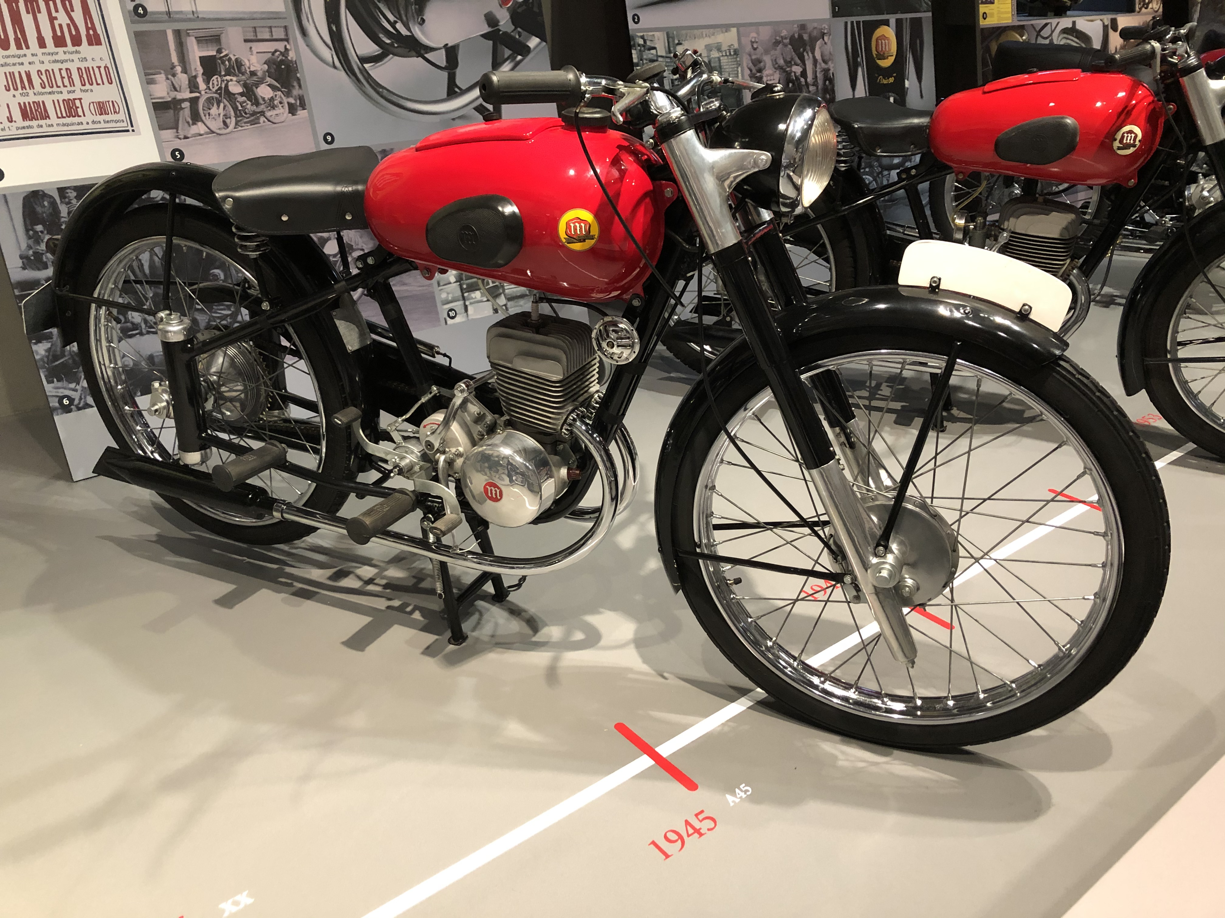 Montesa D51 (1951), Mod. MB, 124.9 cc